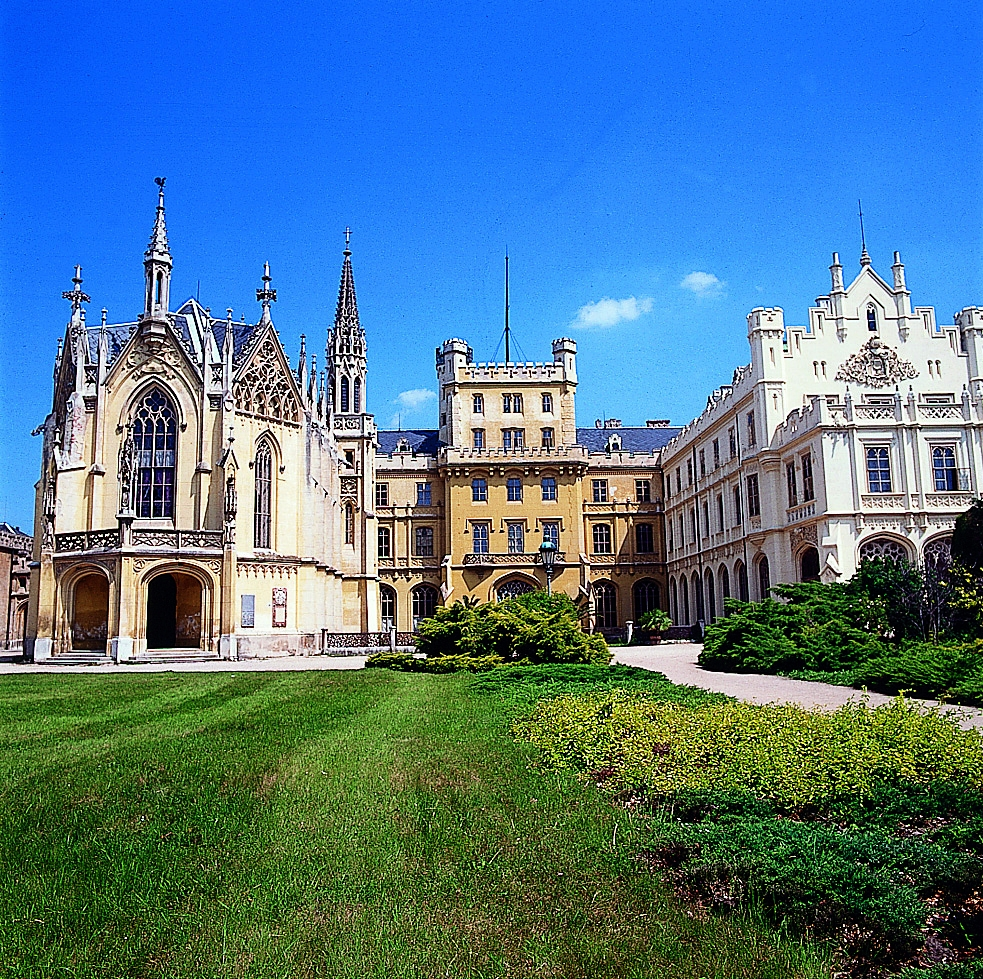 Castle of Lednice